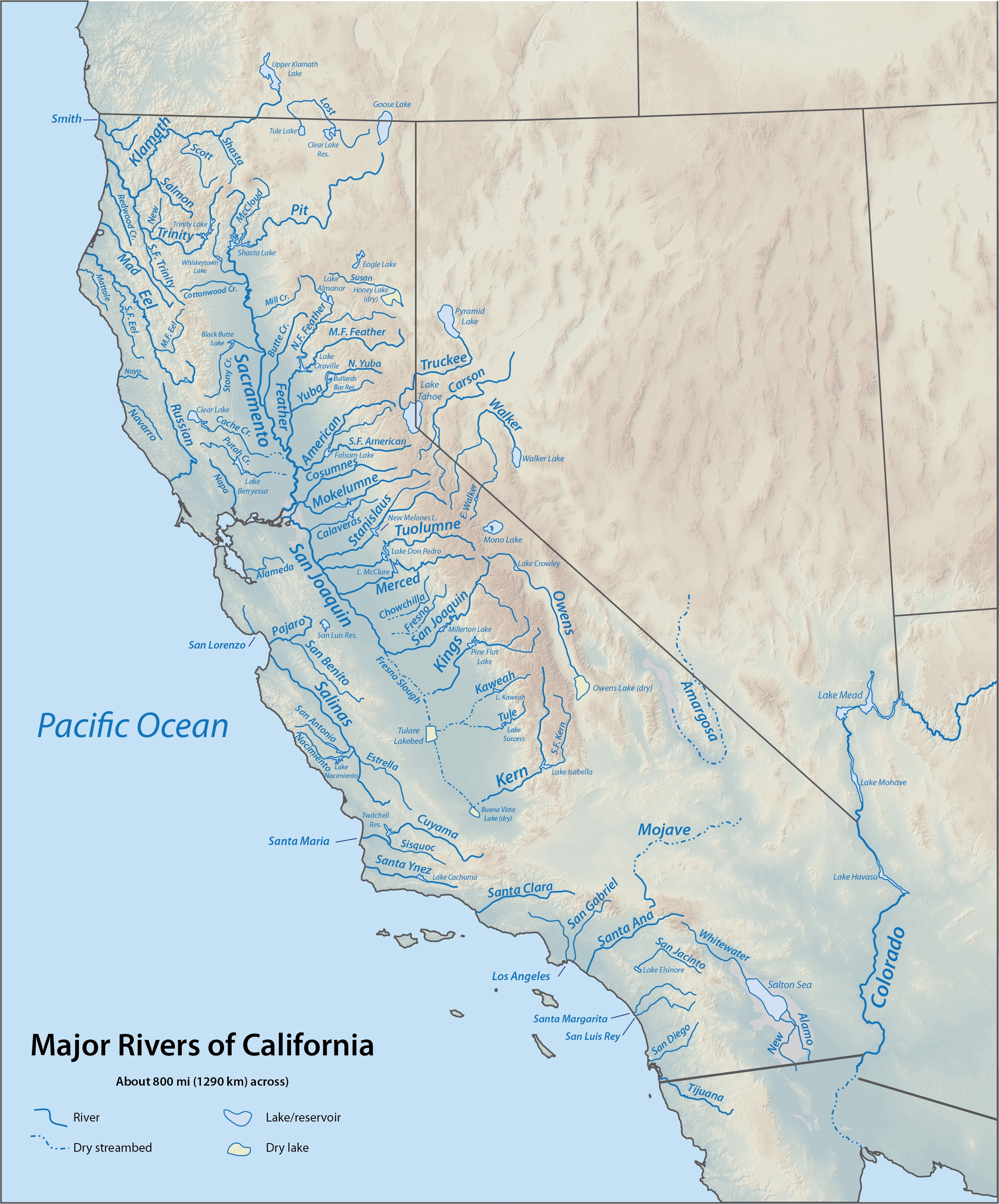 Map of major rivers in California based on DEMIS Mapserver shaded relief